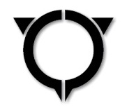 Uto Kumamoto chapter